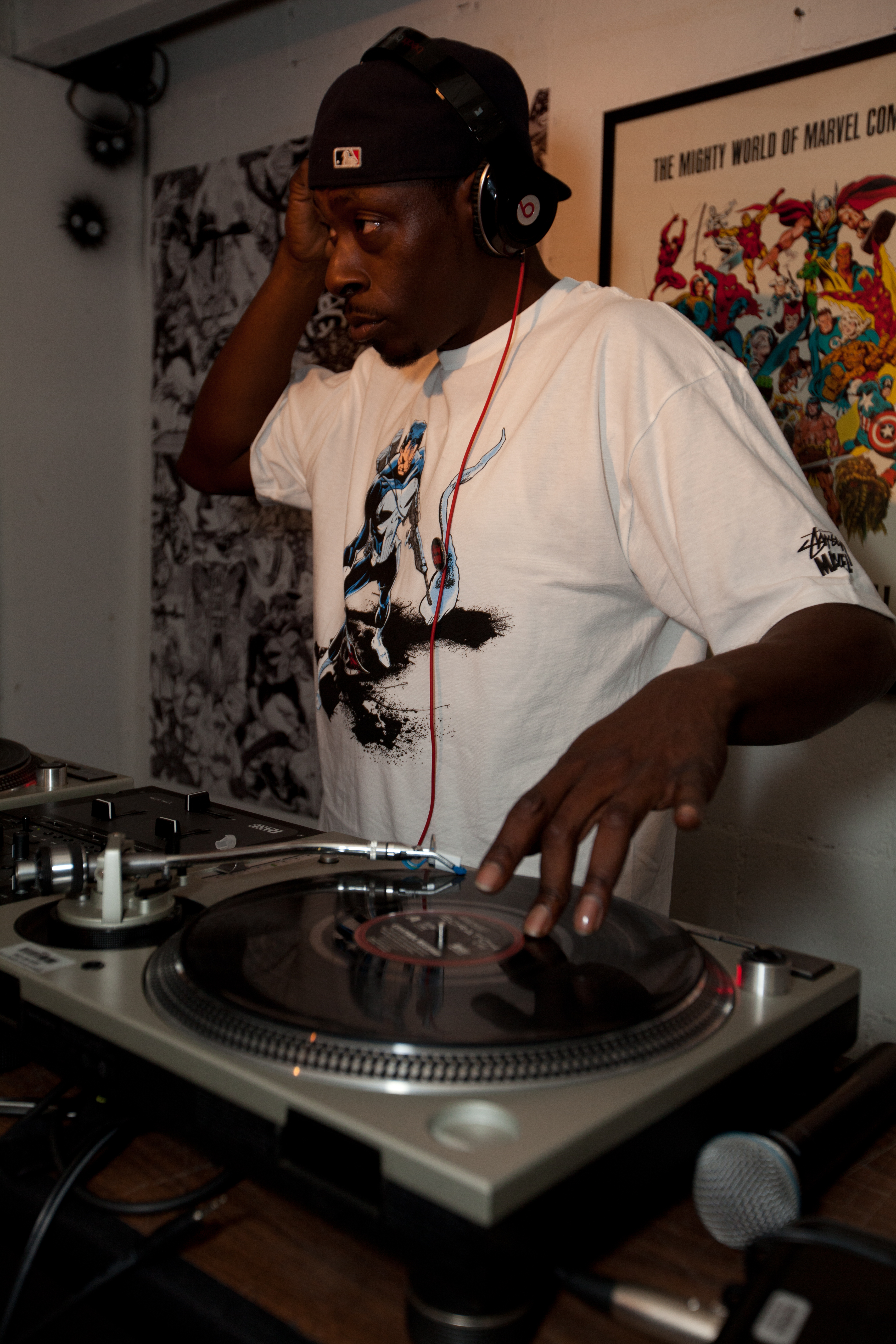 Pete Rock at Marvel/Stussy Launch Party, Meltdown Comics in Los Angeles, 2011.